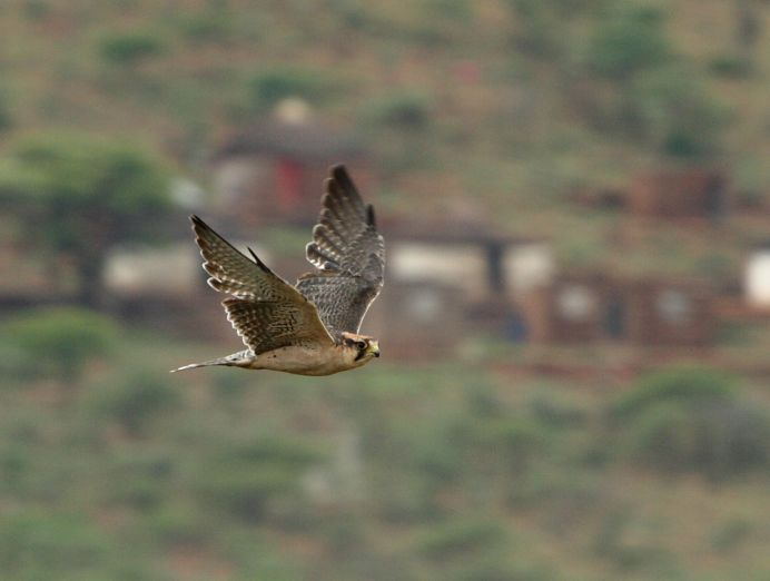 An adult Lanner Falcon flying near Tugela Ferry, KwaZulu-Natal, South Africa.